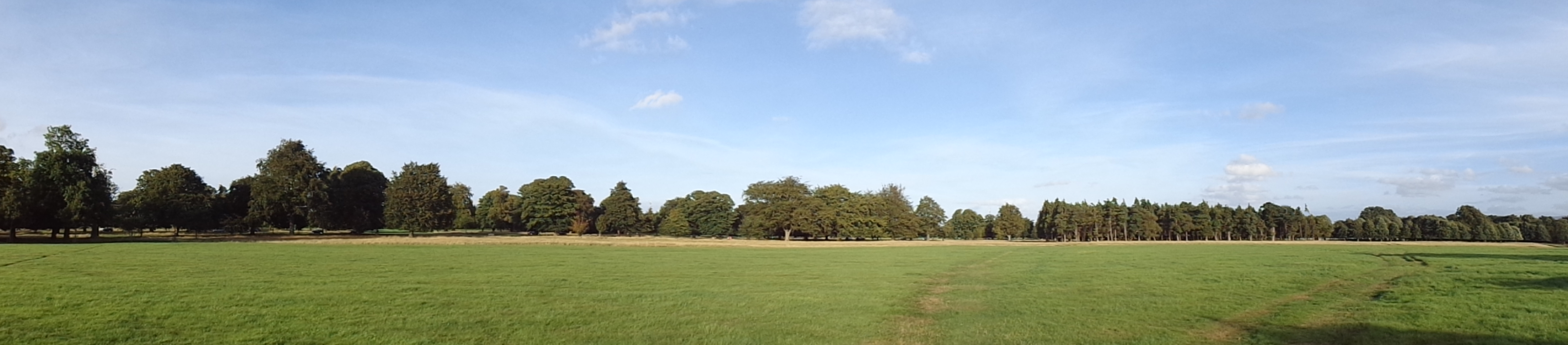 Phoenix Park, Dublin